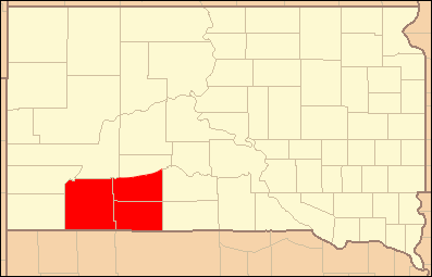 Map of South Dakota with Pine Ridge Indian Reservation highlighted.